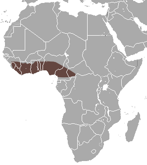 Veldkamp's Dwarf Epauletted Fruit Bat (Nanonycteris veldkampii) range